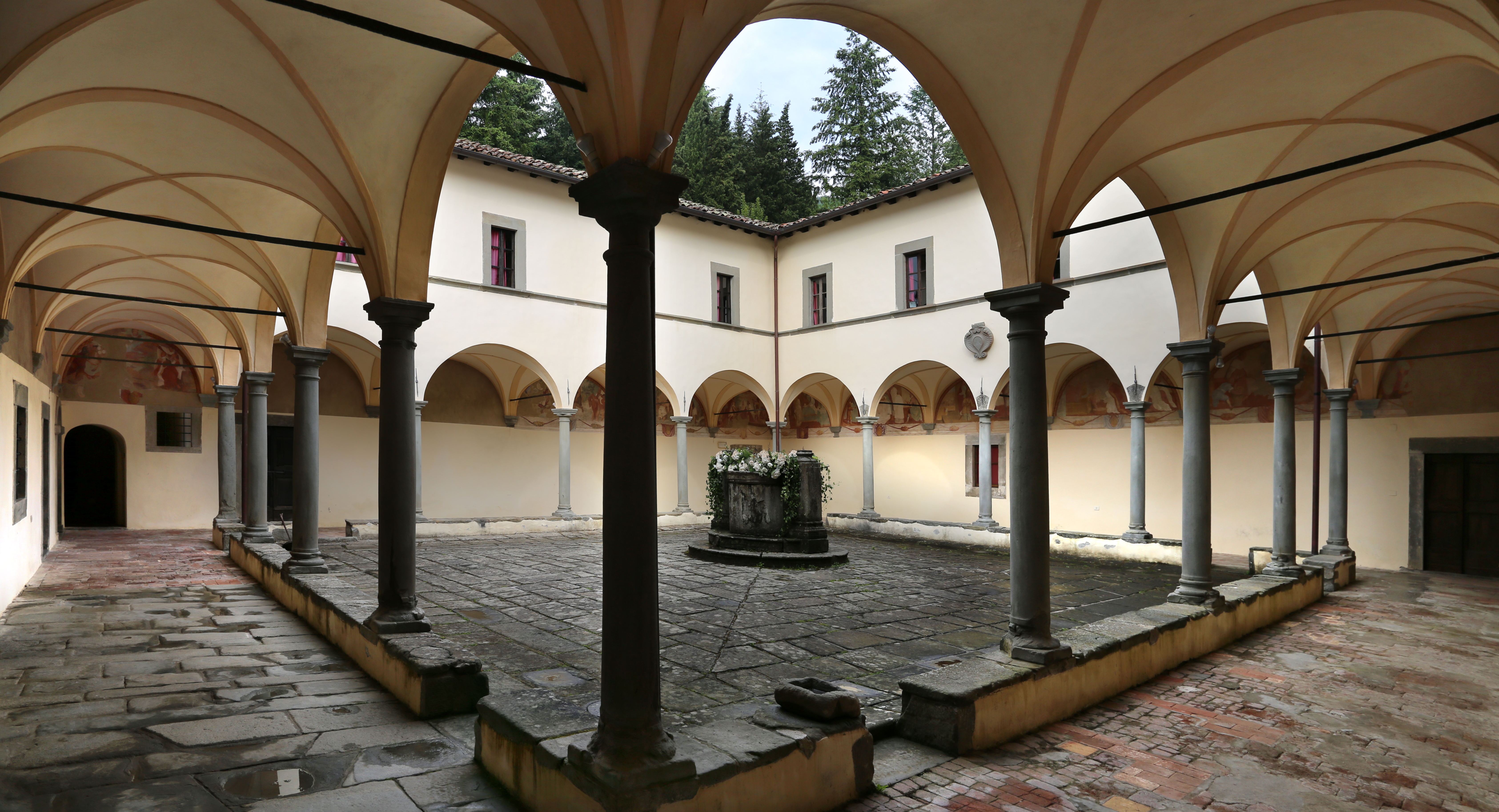 Ex Convento del Carmine (Fivizzano)